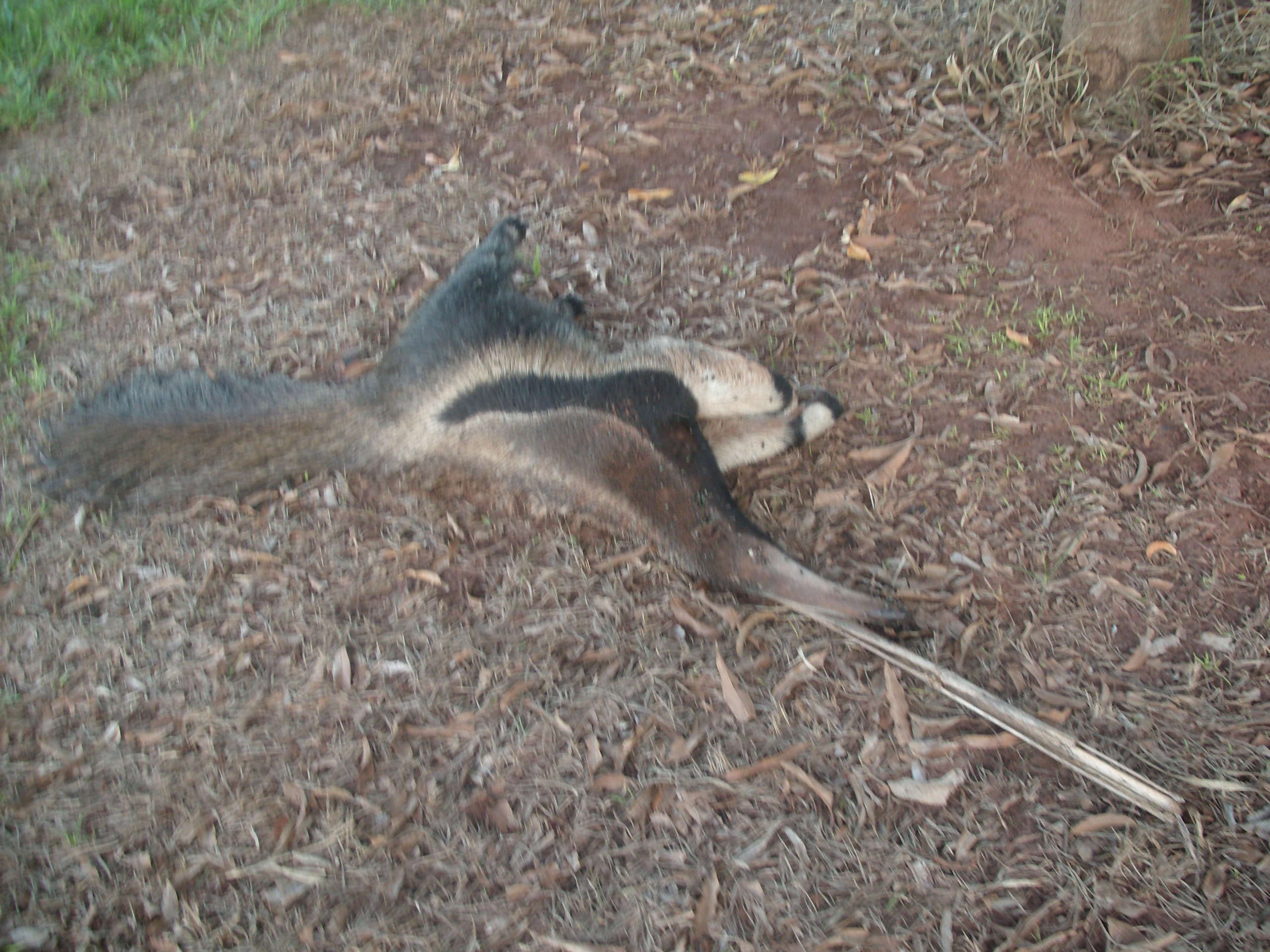 A hit giant anteater in interior of Brazil.